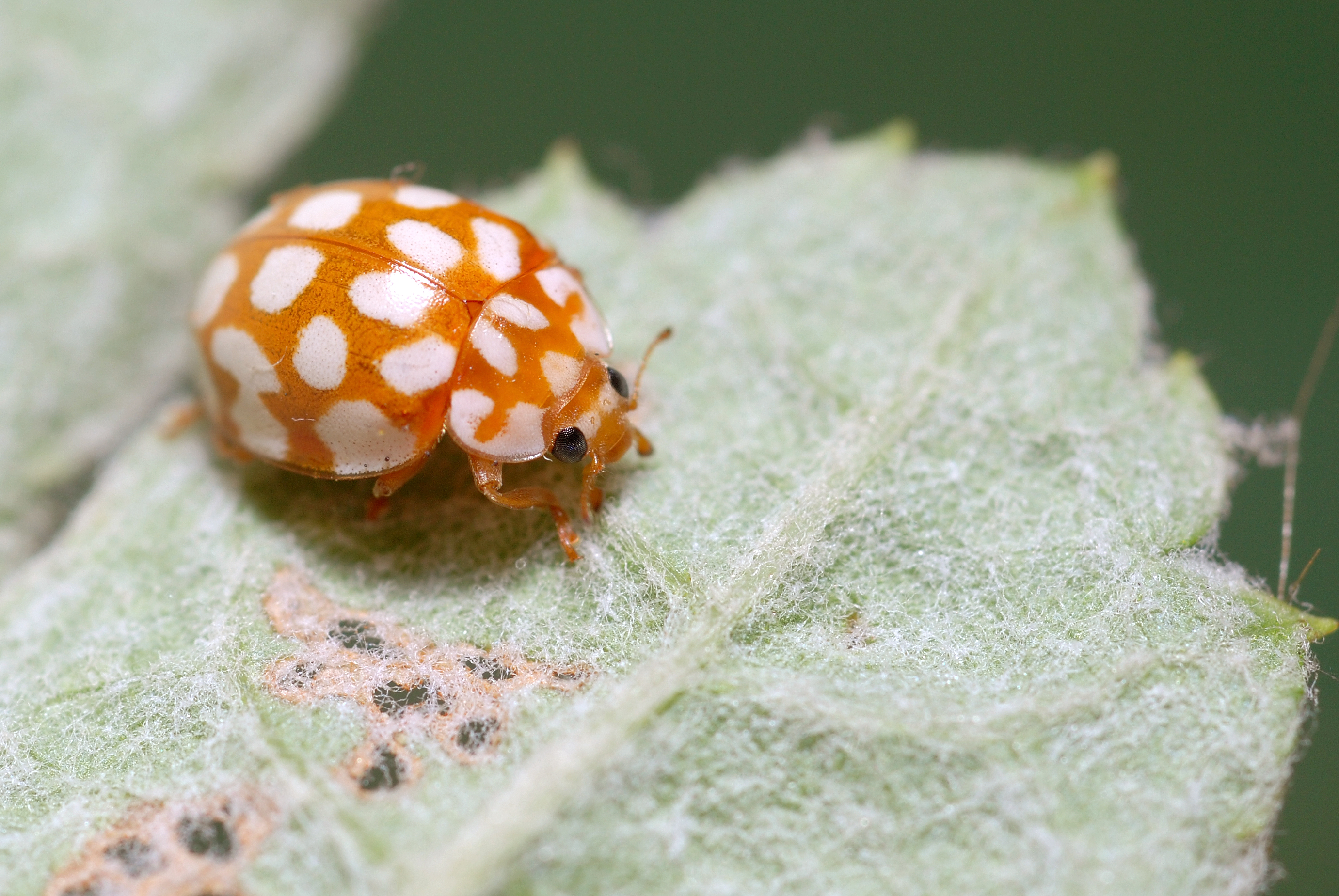 One of the rarest ladybirds in Belgium (probably extinct) and Europe.